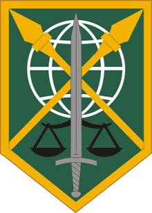 200th MP Command Should Sleeve Insignia